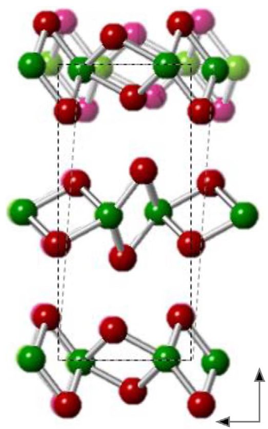 Crystal structures of 1T′ (shadow) and Td (solid) phases